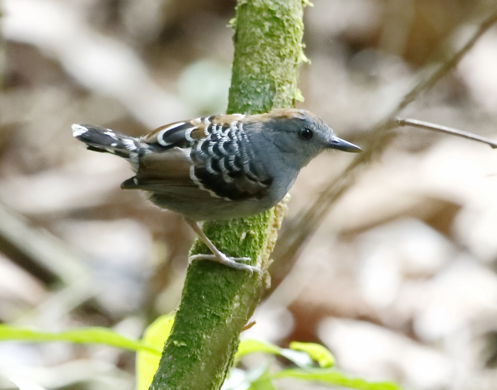 Xingu scale-back antbird (young male) at Carajás National Forest - Pará - Brazil